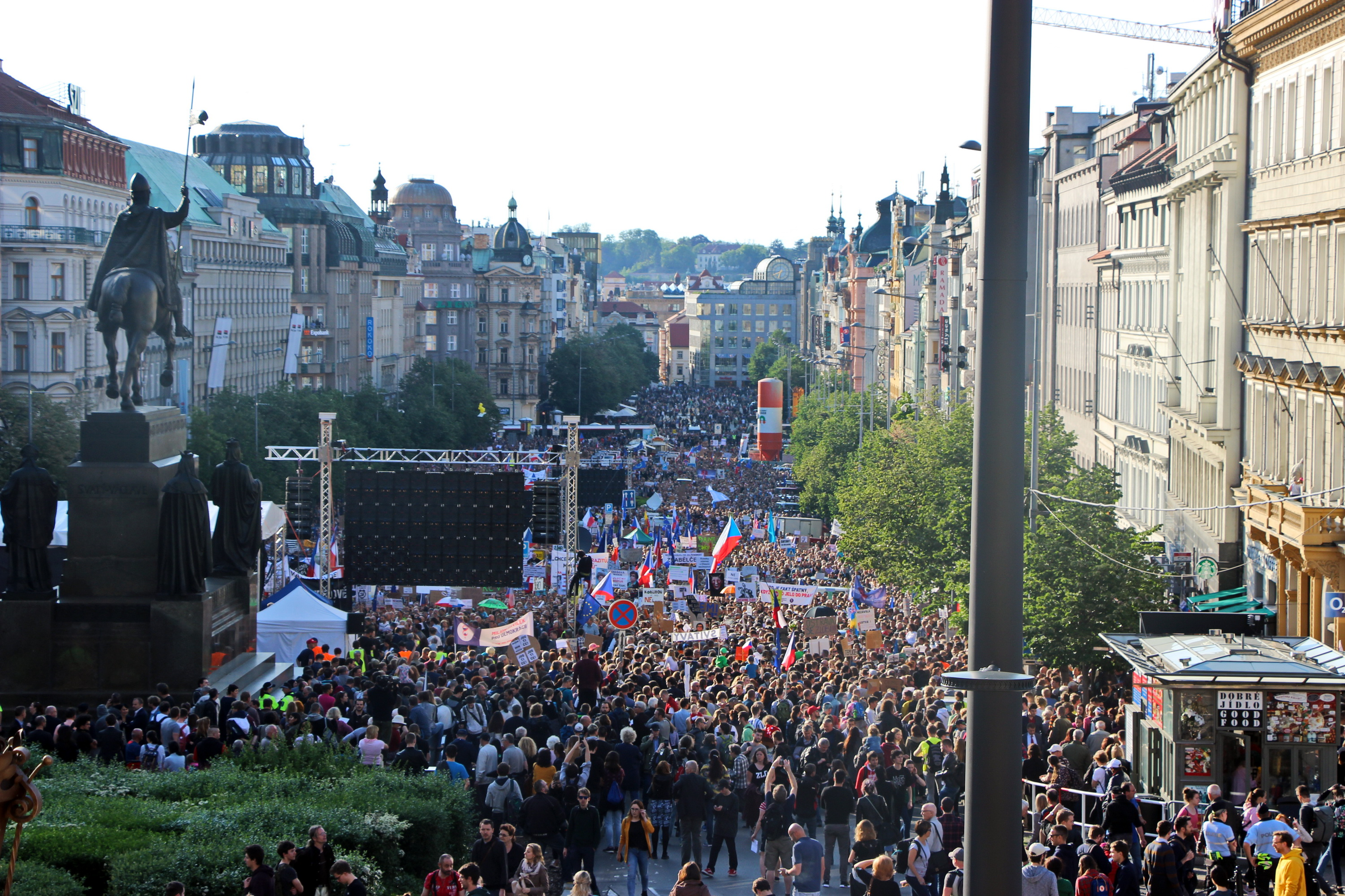 Demonstration for free justice 2019, against Marie Benešová and Andrej Babiš